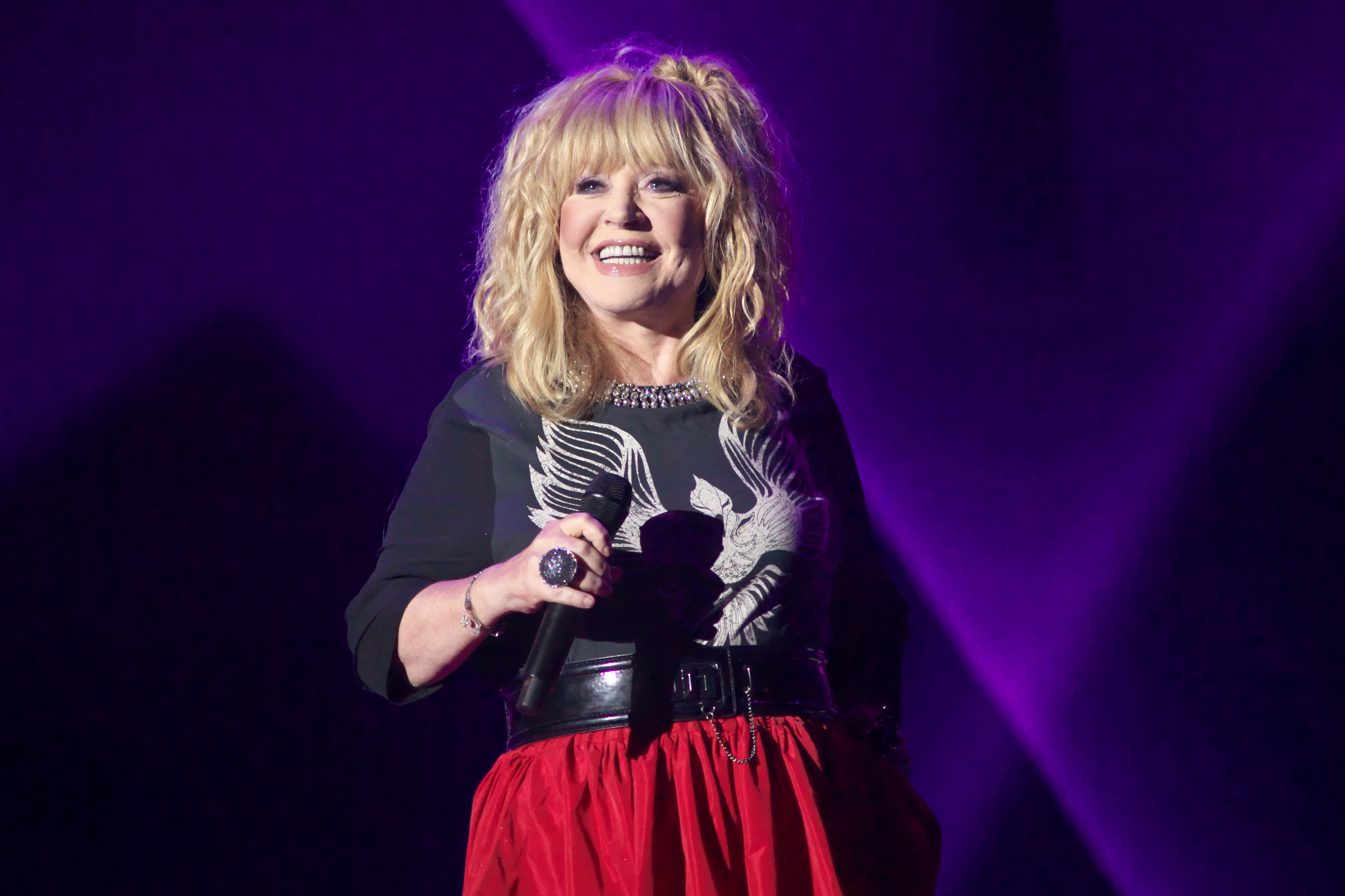 Alla Pugacheva on Slavianski Bazaar in Vitebsk, 2016